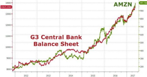 Recreation of a well-known chart from BIS data and Bloomberg data of the G3 central bank balance sheets: FEB, ECB and the BOJ versus the share price of Amazon (NYSE: AMZN)